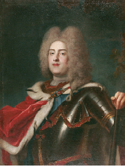 Young August III of Poland in 1716